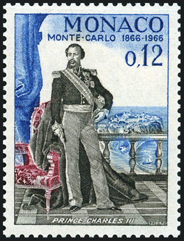 Stamp of Charles III of Monaco